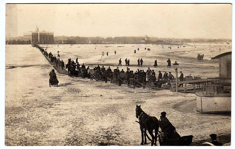 Winter traffic on the Daugava River, Riga, Latvia.